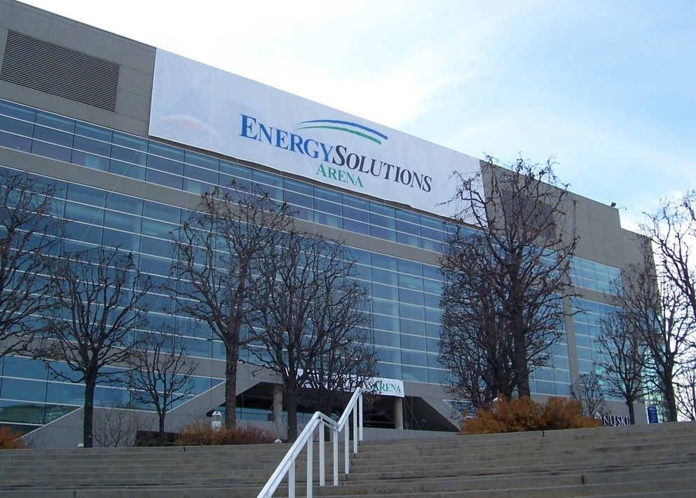 Photo of Delta Center in transition to EnergySolutions Arena (formerly the Delta Center)